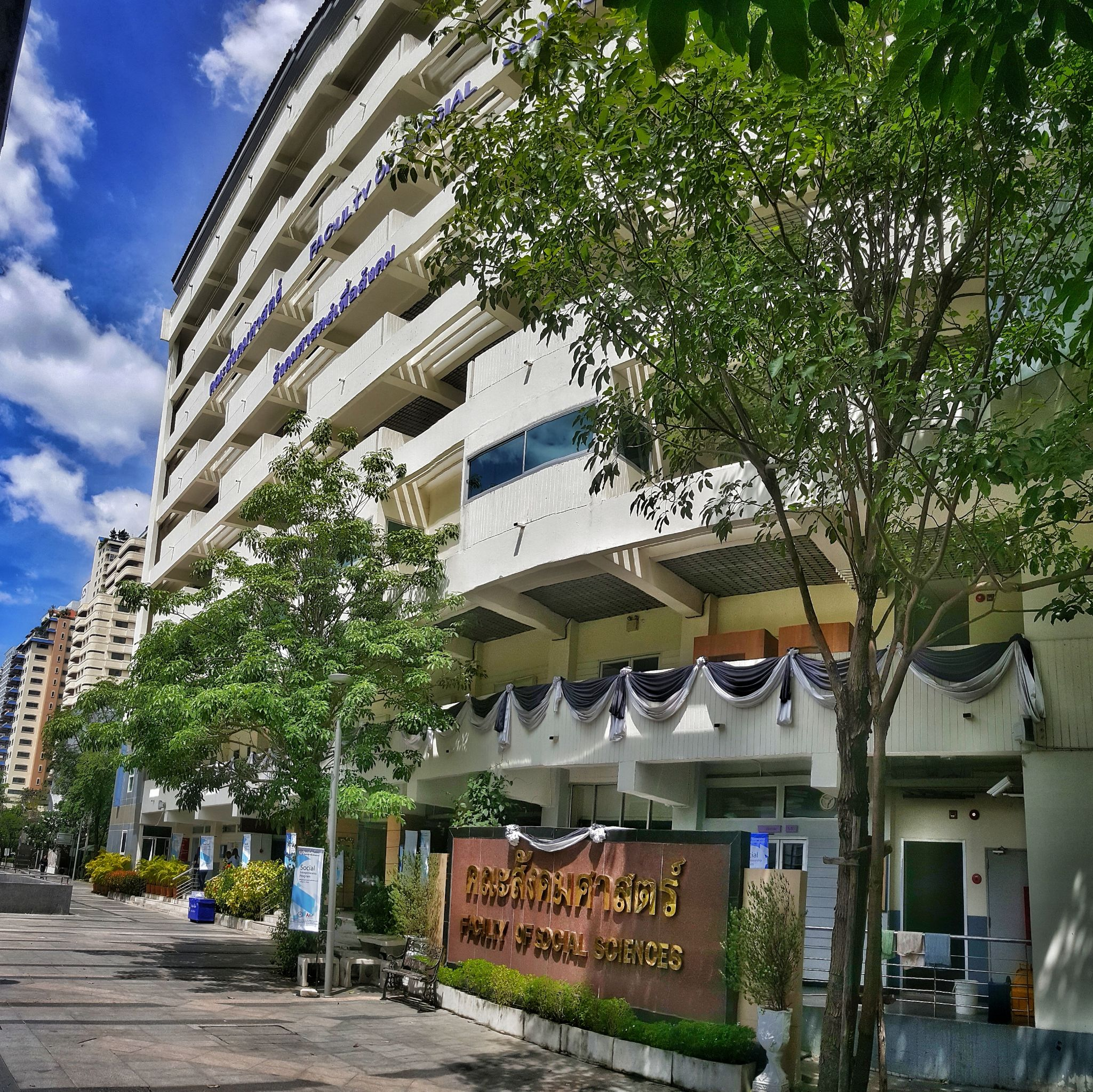 swu building